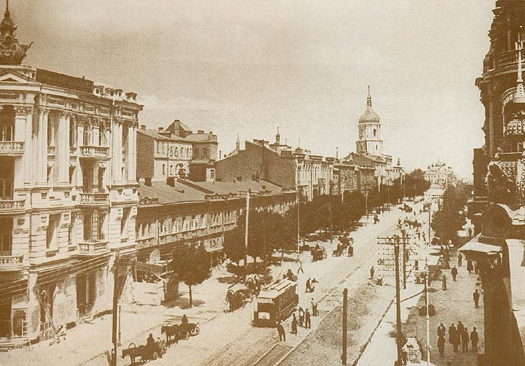 Kiev view of the Large Vladimirskaya street